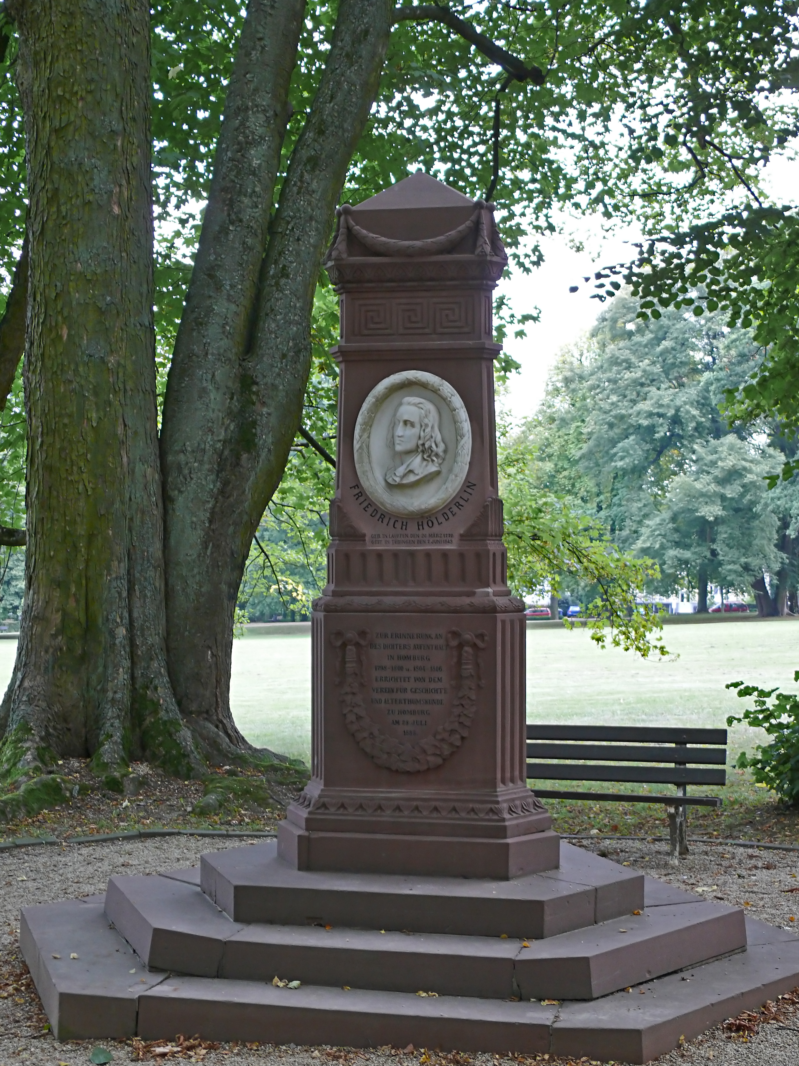 "Hoelderlin" memorial at "Kurpark" in Bad Homburg, Hesse, Germany